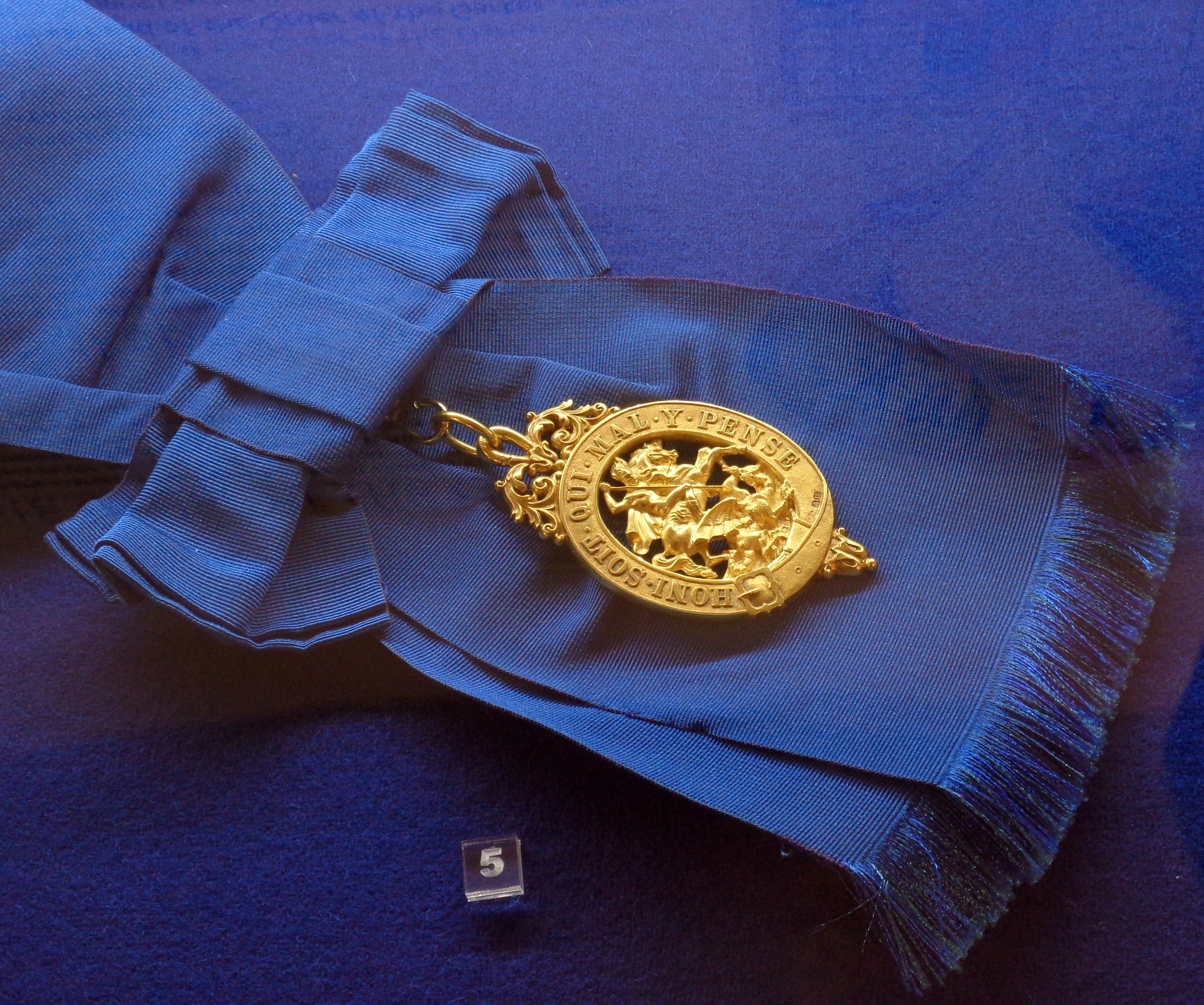 Order of the Garter, badge and sash. United Kingdom. The exhibition of the Tallinn Museum of Orders of Knighthood, Estonia.